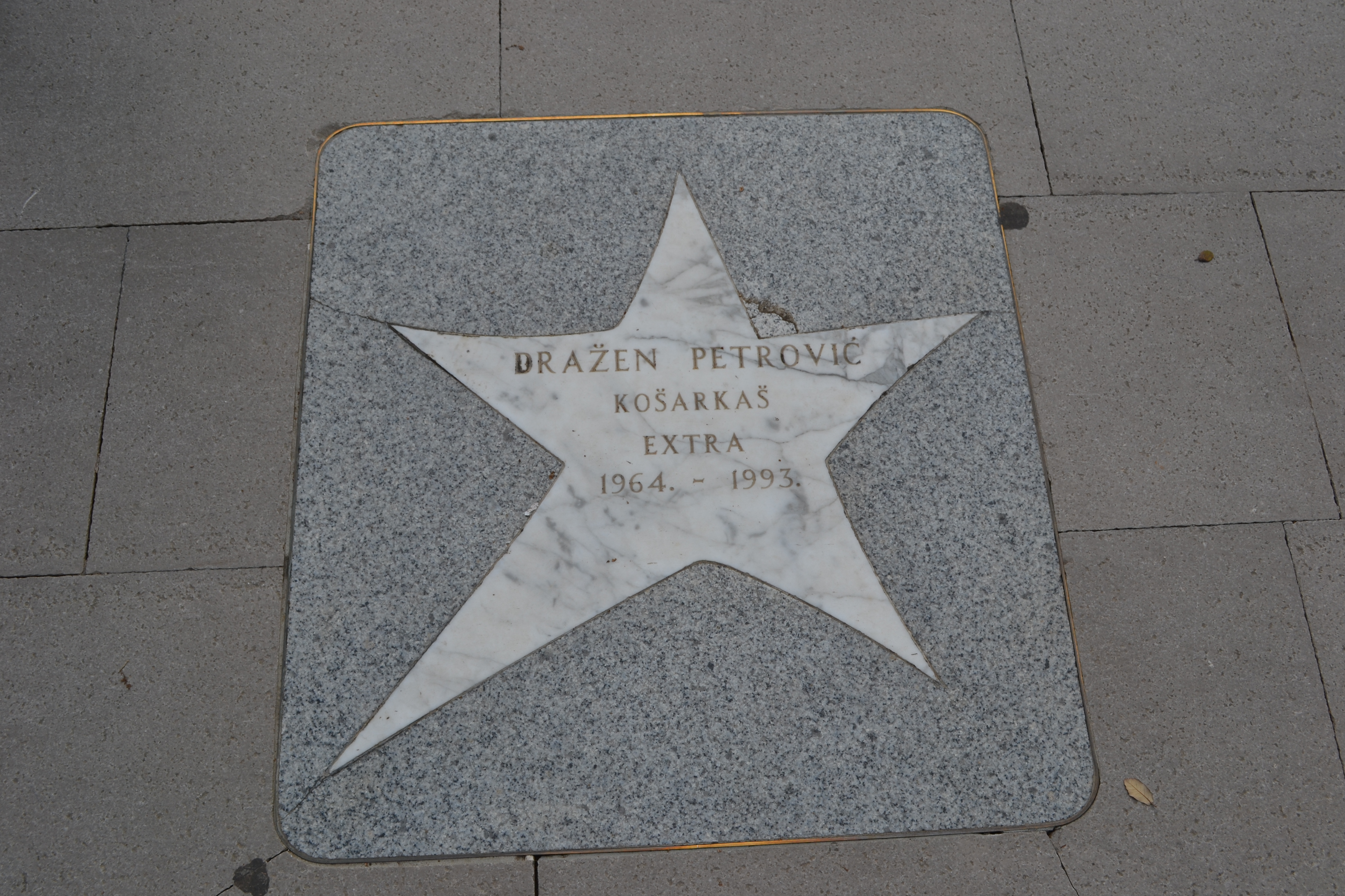 Croatian walk of fame with star of Drazen Petrovic - basketball player, Opatija, Croatia